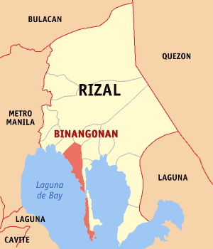 Locator map of Binangonan in Rizal, Philippines.